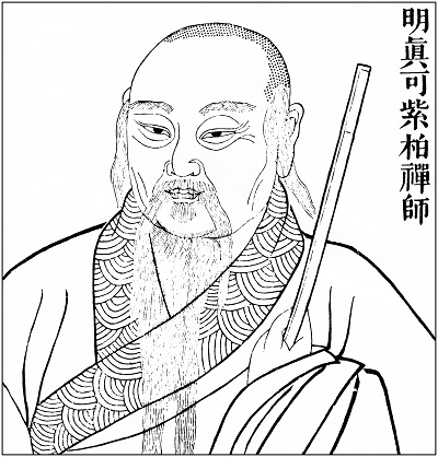 Portrait of zen master Zibo Zhenke